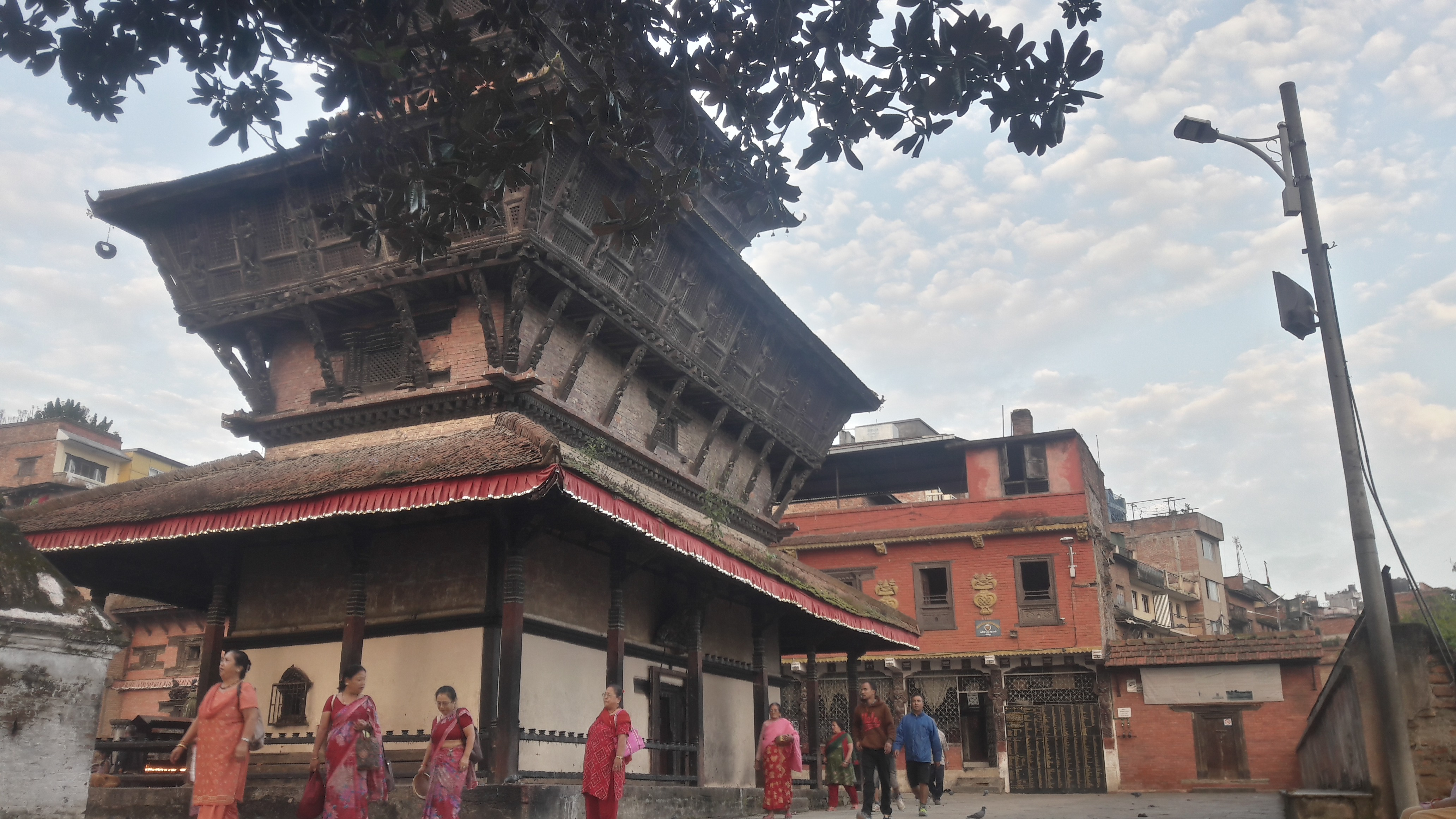 South east view of Bagh Bhairab temple at Kirtipur and people worshiping early in the morning.